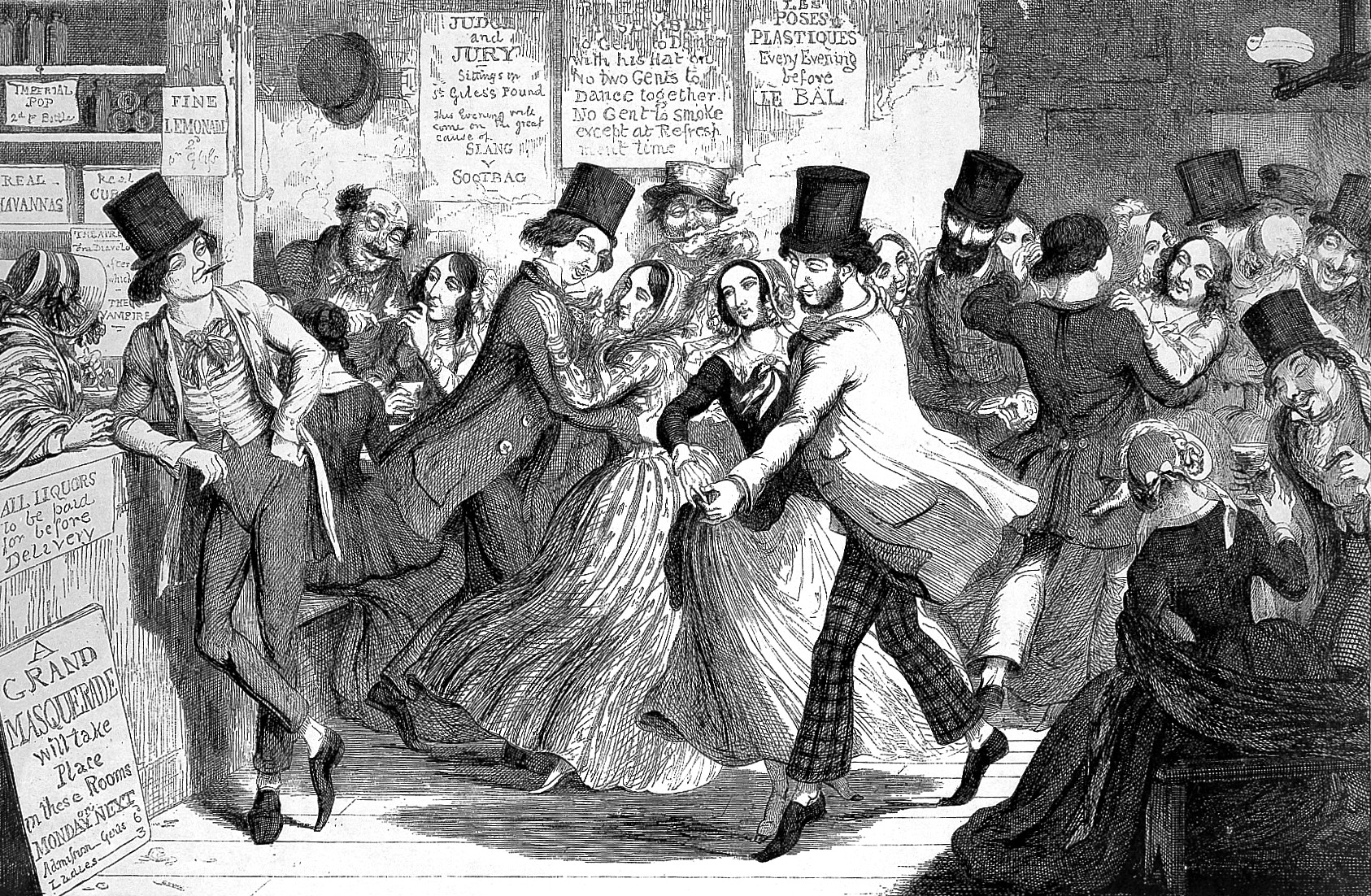 Daughter dancing. Rare Books Keywords: Poverty; Temperance; Alcoholism; George Cruikshank